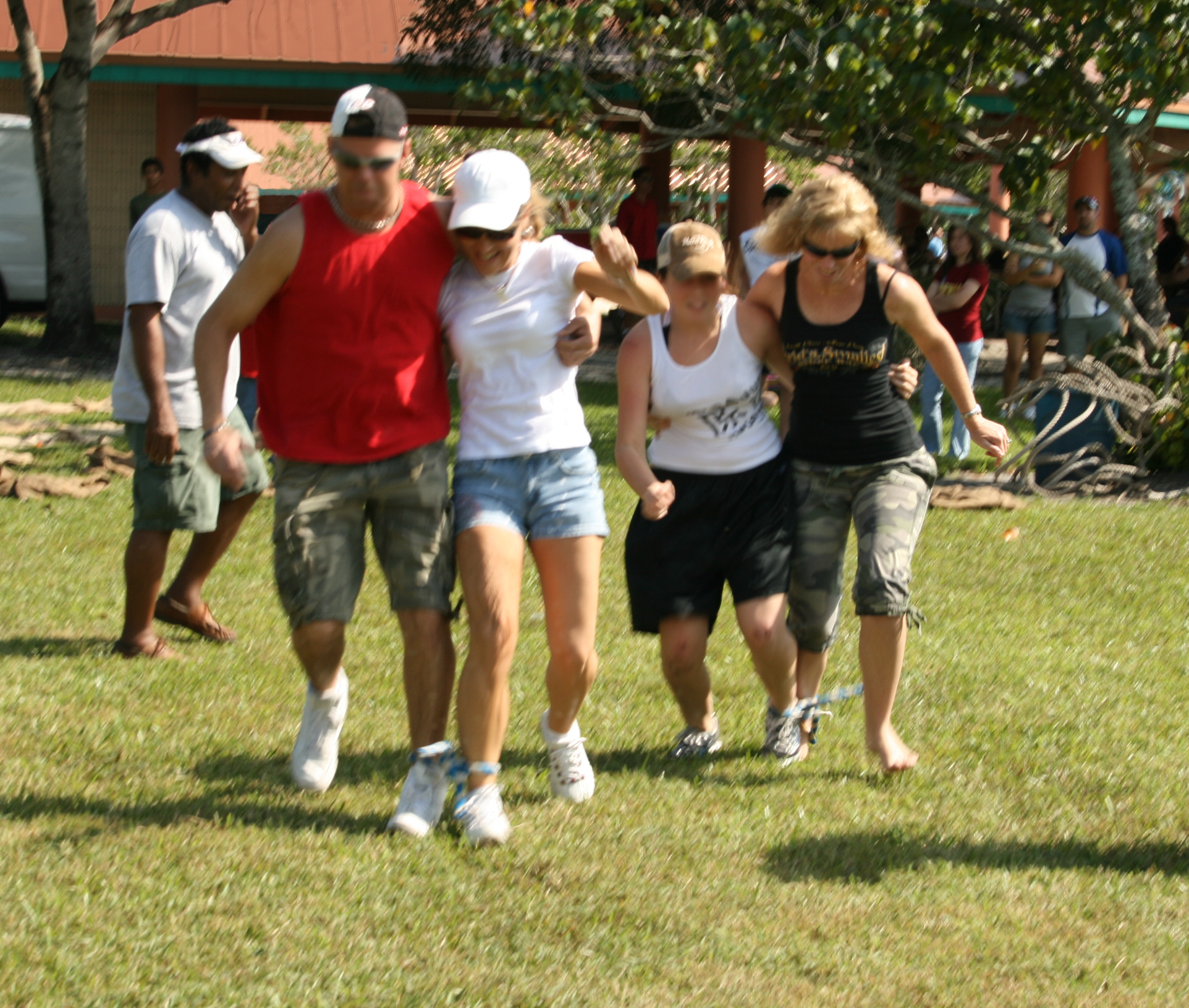 Three Legged Race